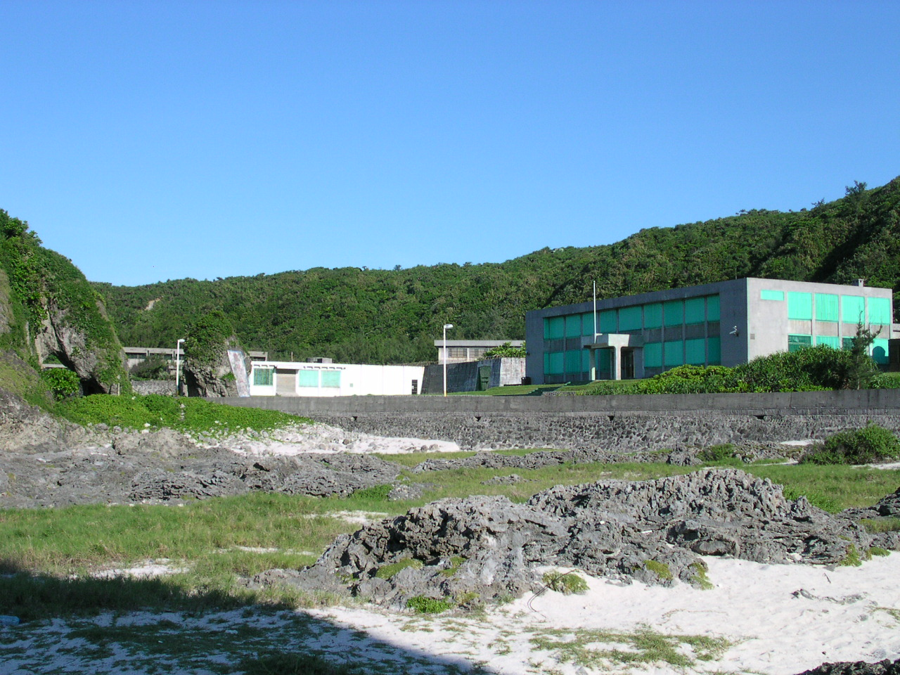 this photo taken by vegafish